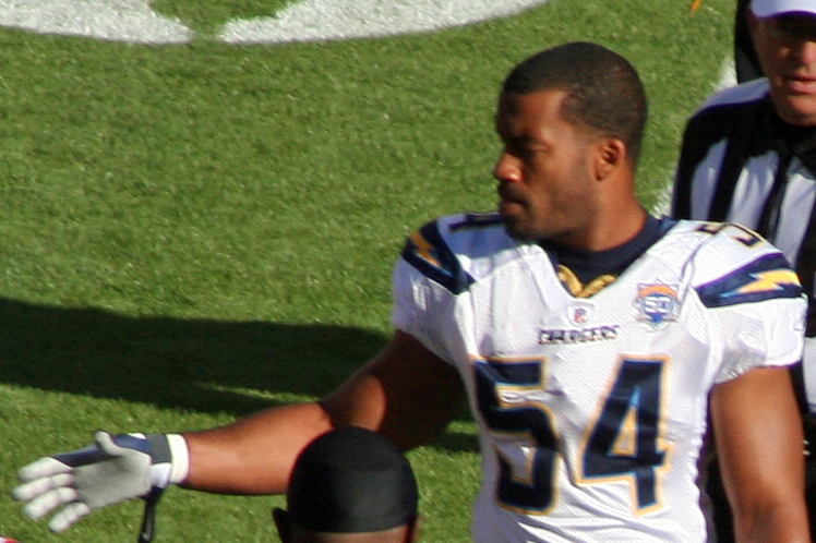 Stephen Cooper, a player on the San Diego Chargers American football team.